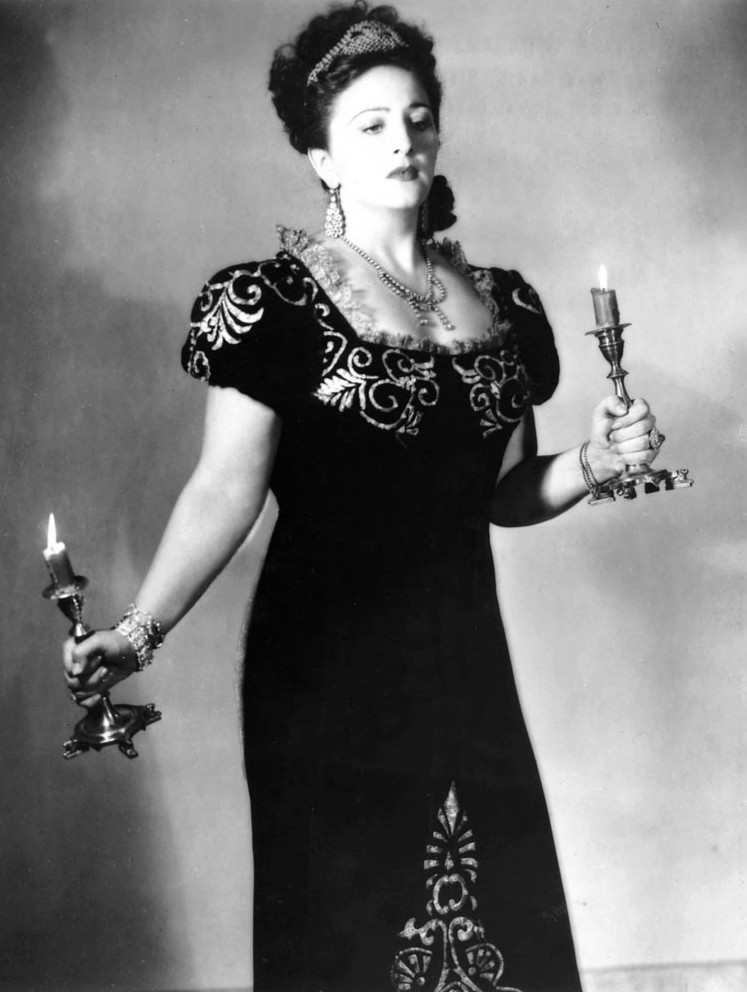 Photo of vocalist Zinka Milanov in Tosca.